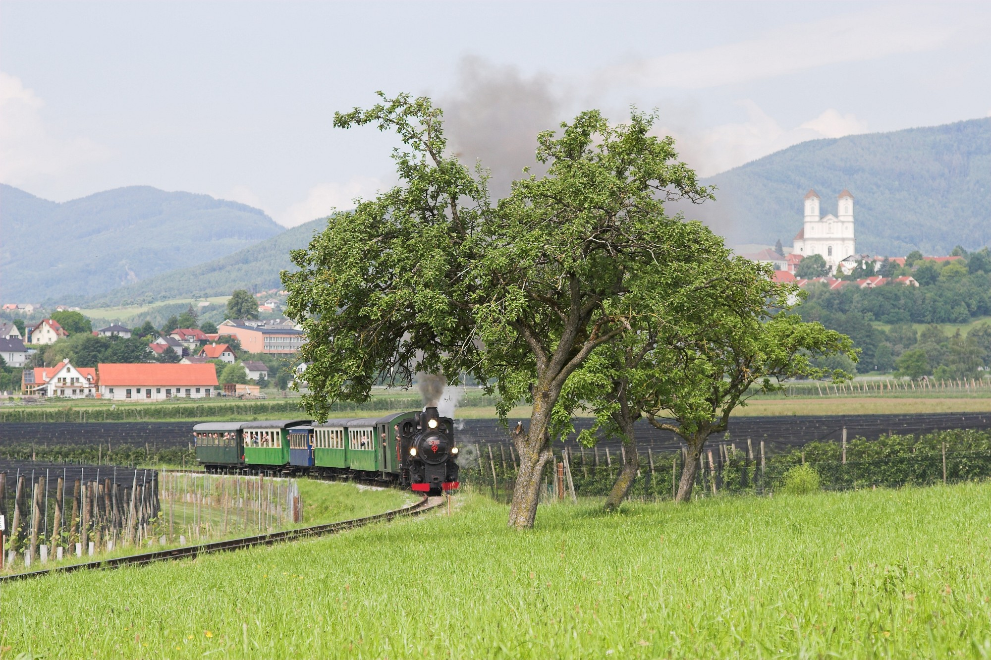 A steam train on the Feistritztalbahn hauled by 83-180 leaving Weiz.